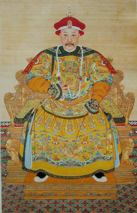 The Imperial Portrait of a Chinese Emperor called "Jiaqing".